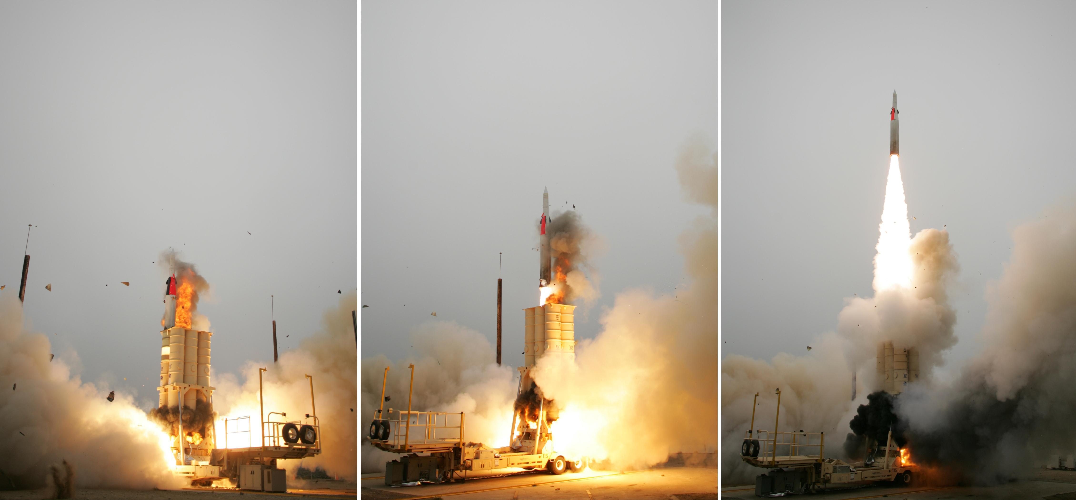 Arrow anti-ballistic missile launch. Point Mugu Sea Range, Calif. (Aug. 26, 2004) – An Arrow anti-ballistic missile interceptor is launched from its mobile platform during a joint Israel/United States developmental test at the Point Mugu Sea Range, Calif. This was the second in a series of tests following a previous successful test in which a target that represents a real threat to Israel was intercepted and destroyed. The test was part of the on going Arrow System Improvement Program.